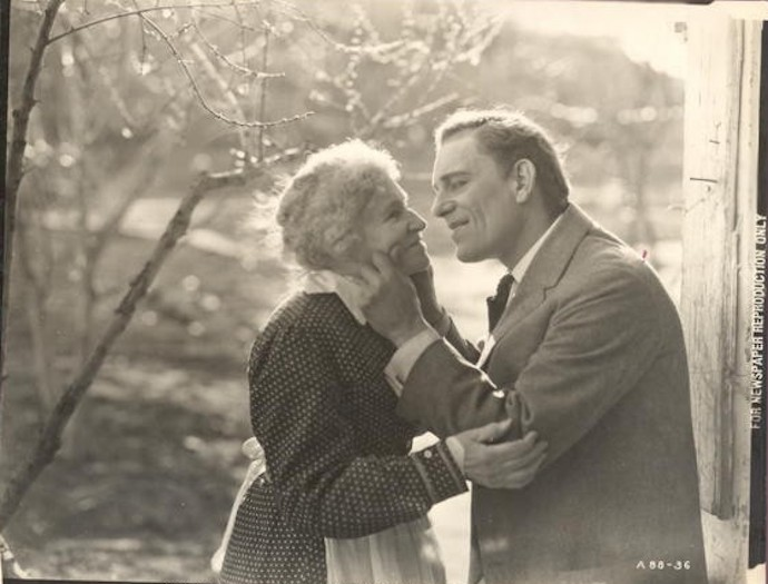 The Miracle Man is a 1919 American silent drama film starring Lon Chaney and based on a 1914 play by George M. Cohan, which in turn is based on the novel of the same title by Frank L. Packard. The film was released by Paramount Pictures.